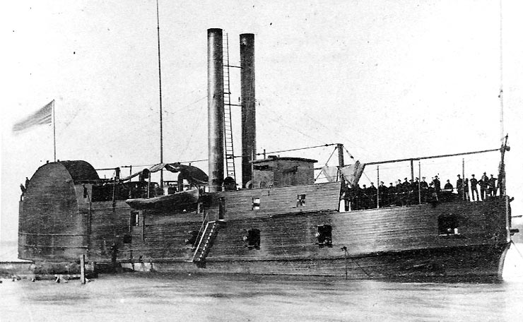 River gunboat timberclad USS Conestoga (1861-1864), removed caption read: Photo # NH 55321 USS Conestoga, photographed during the Civil War